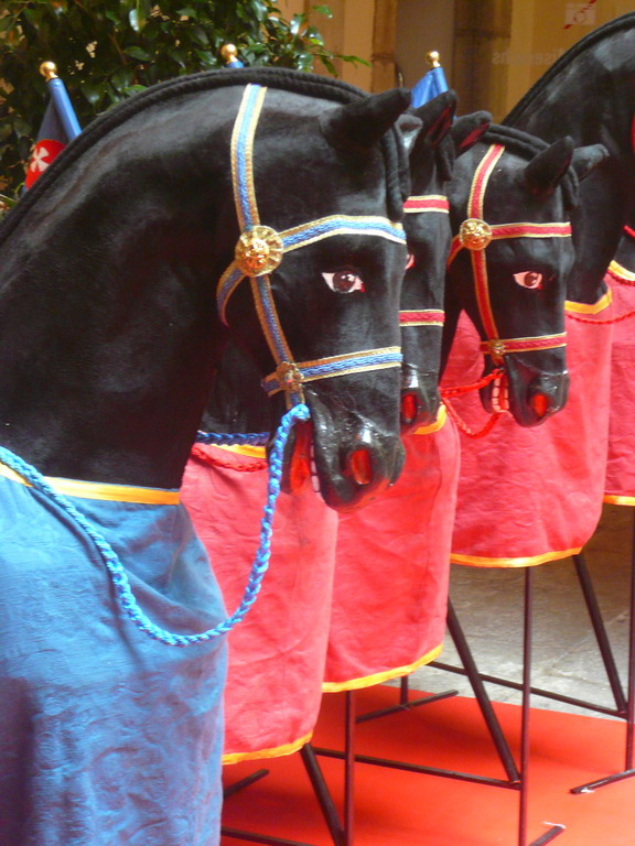 Cavallets Cotoners